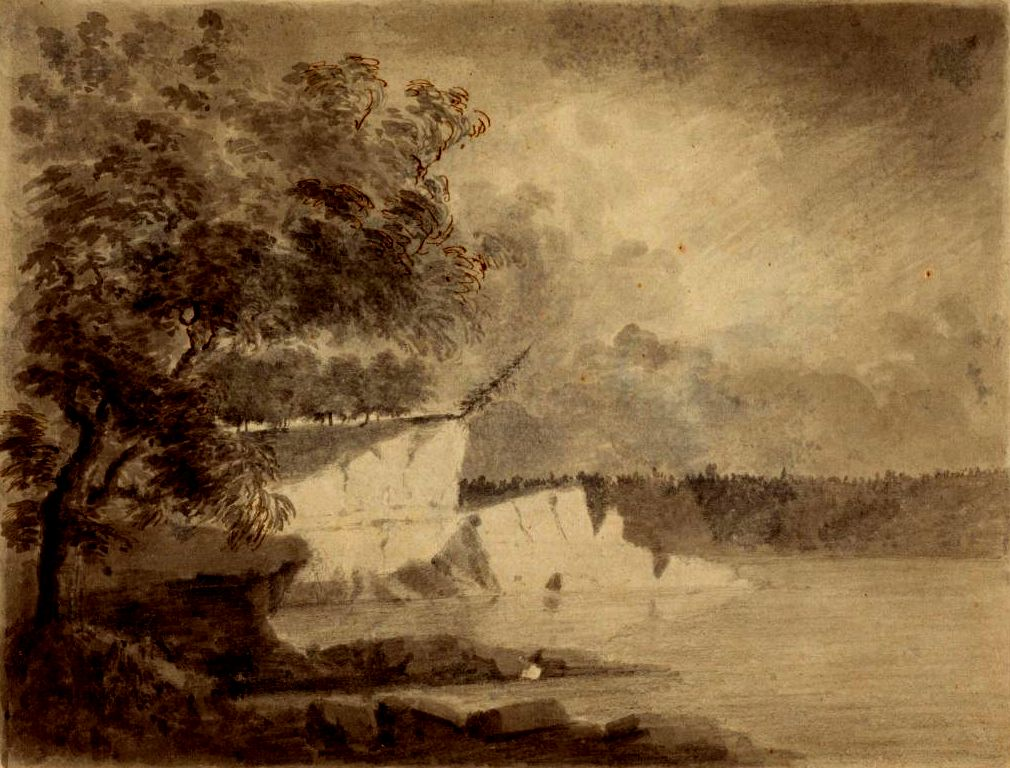 Landscape sketched during Henry Hamilton's tavel down the Wabash River to recapture the village of Vincennes.